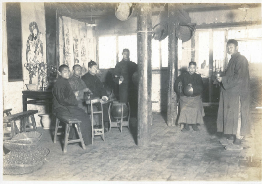 Men in the early Republican period gathered on the eve of the Chinese New Year. Everyone wears new clothes. First the gods are welcomed into the household. Next the family holds a large reunion dinner. Finally the new year is welcomed by making loud noises with cymbals, drums, bells, and other regional instruments.